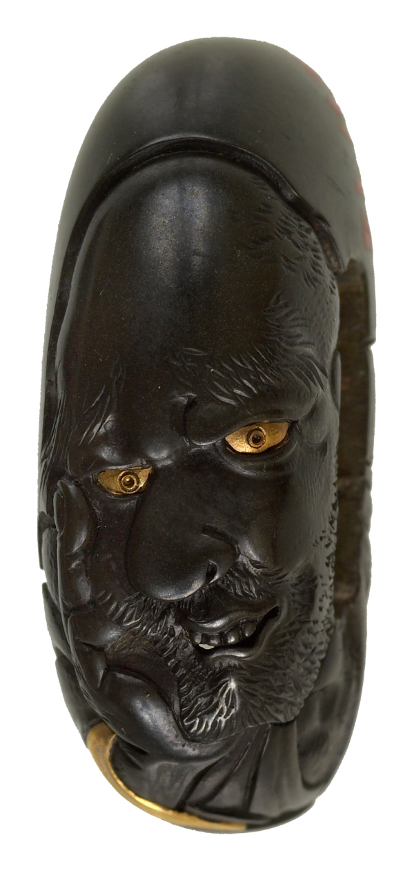 The face of a man dominated this kashira. At the lower left, his hand is raised to his cheek. He is either Boddhidharma, the founder of Zen Buddhism, or a Buddhist holy man ("arhat").